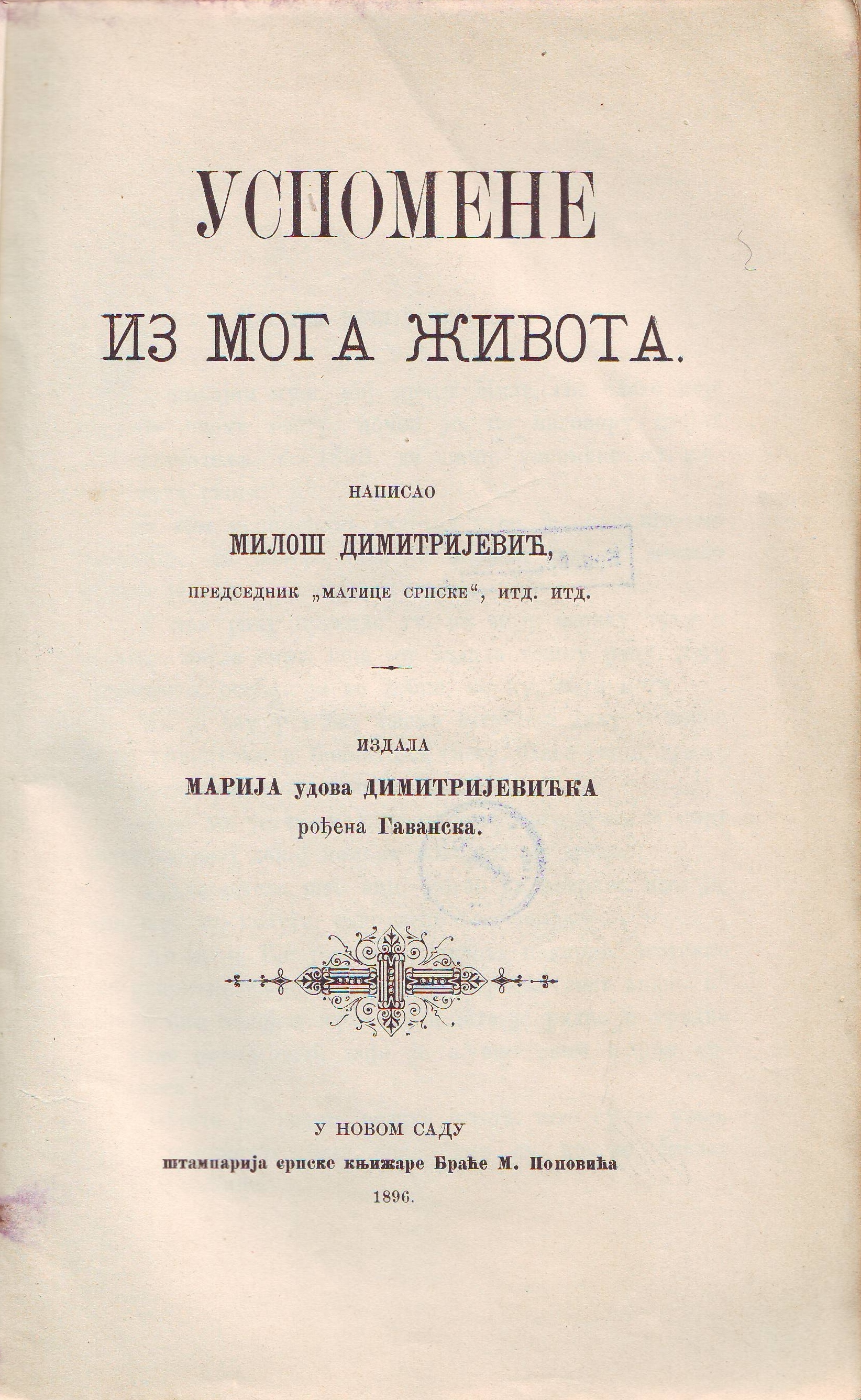 The first page of Miloš Dimitrijević's memoir Uspomene iz moga života (Novi Sad, 1896). Srpski (latinica): Prva strana memoara Miloša Dimitrijevića Uspomene iz moga života (Novi Sad, 1896).